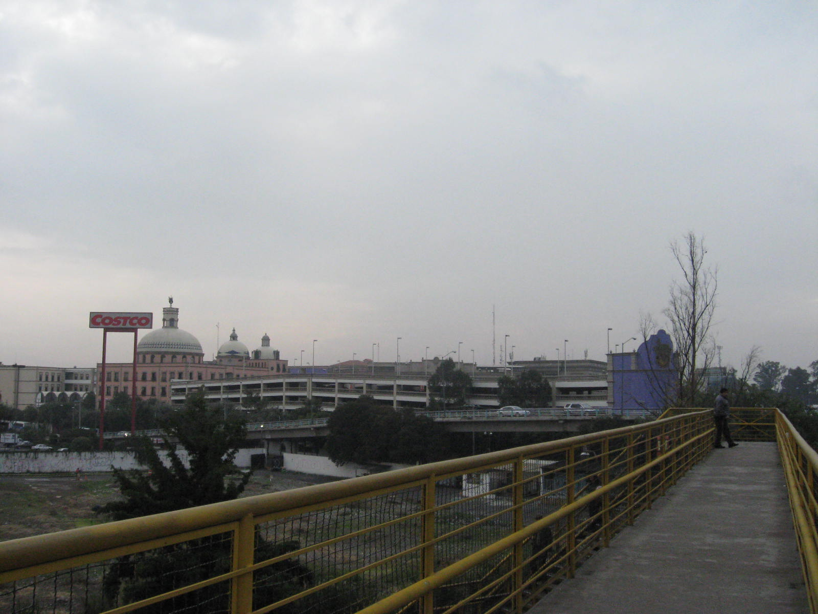 View of ITESM Campus Ciudad de Mexico located in Tlalpan borough of Mexico City